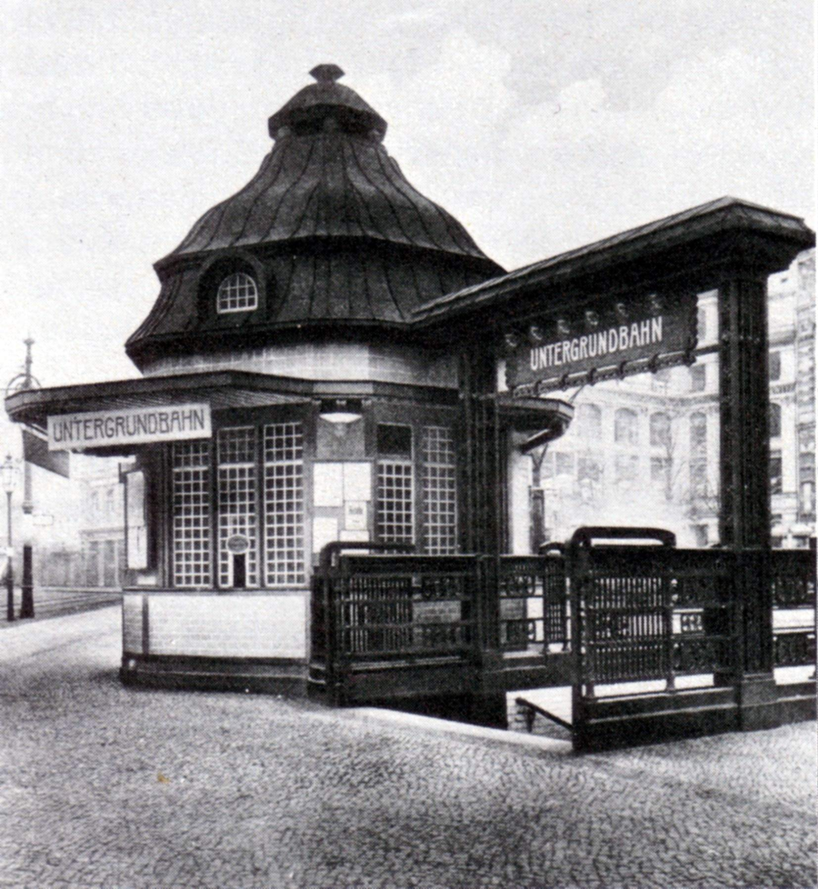 Eastern entrance of the Berlin U-Bahn station Hausvogteiplatz, line U2